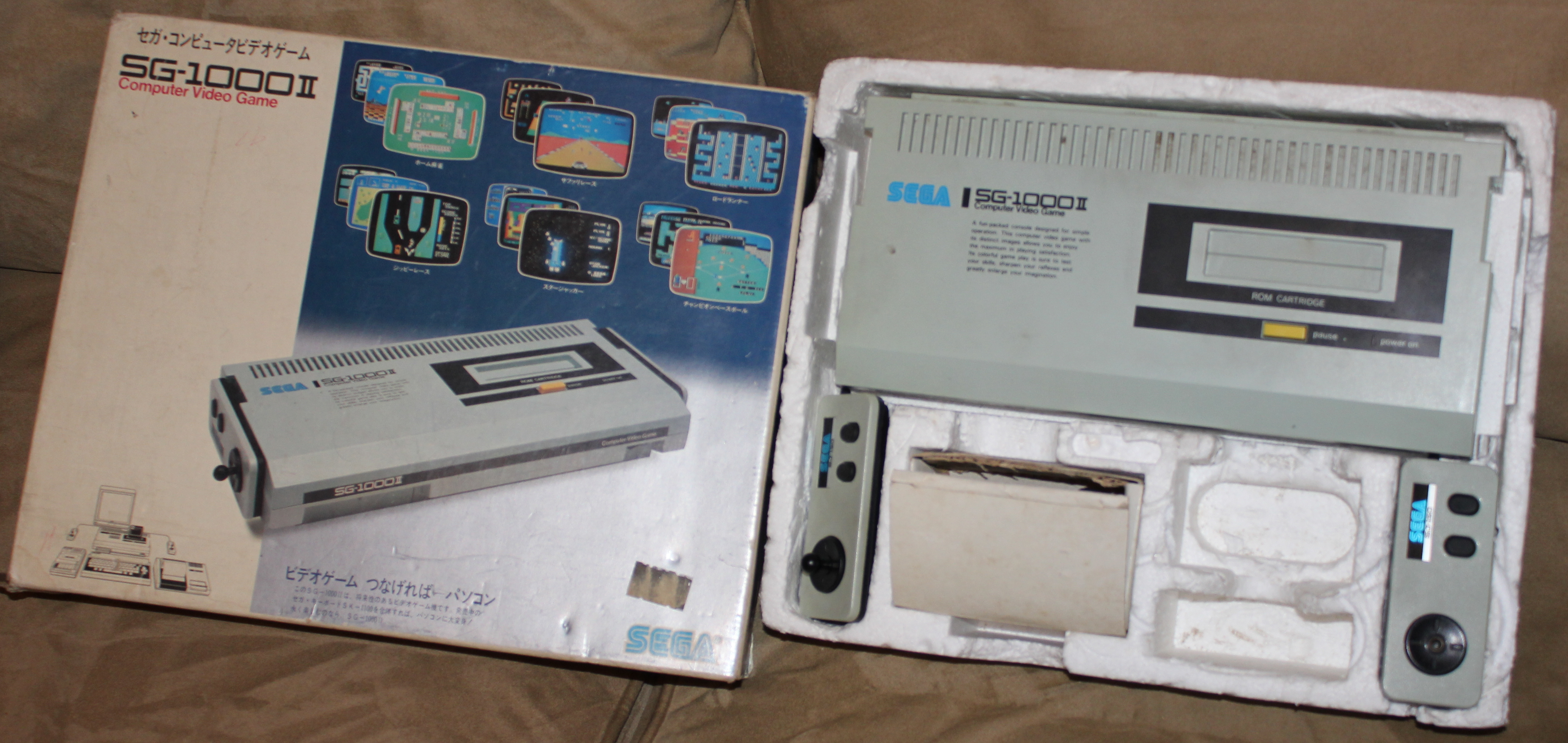 My Sega SG-1000 II, including original box and two controllers.